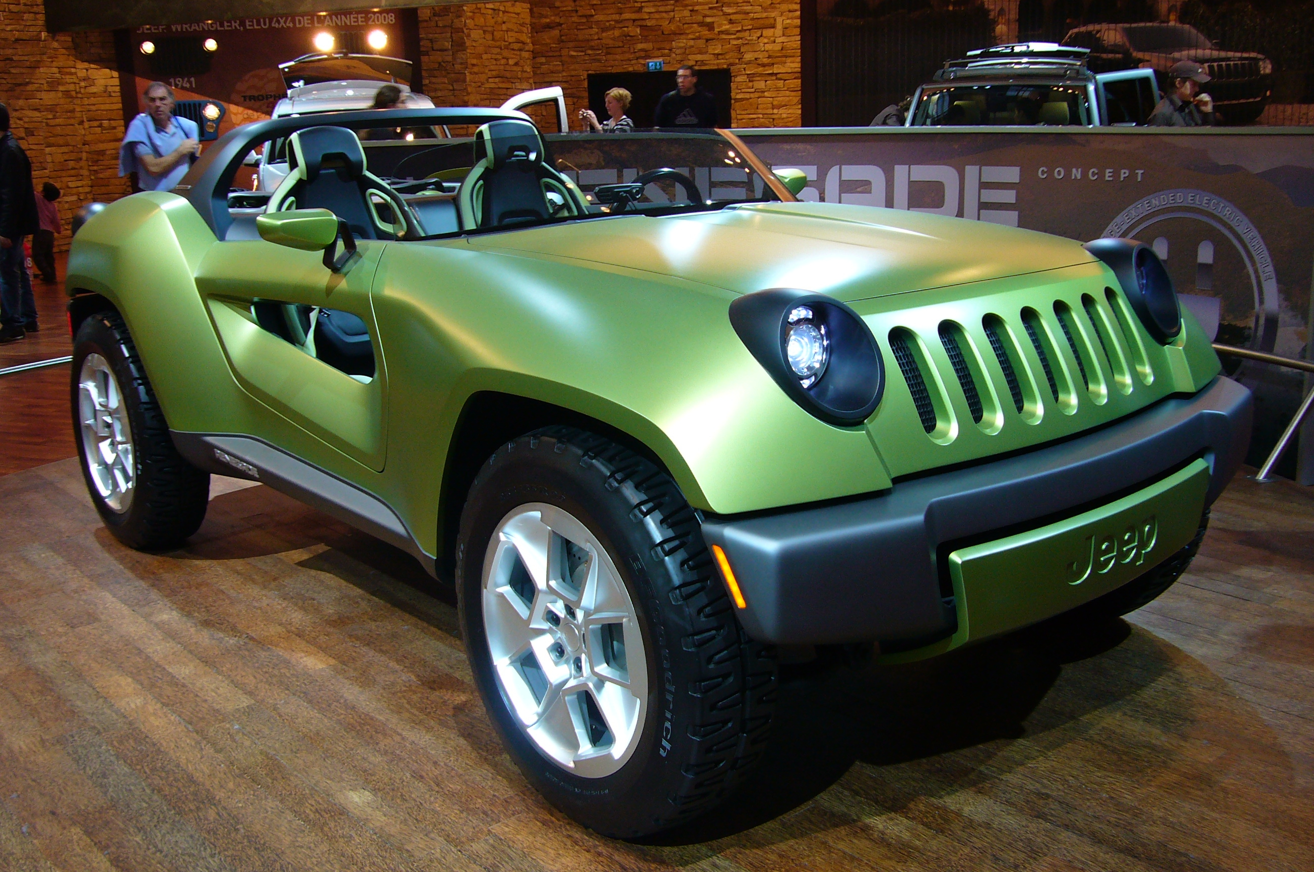 Jeep Renegade Concept at Mondial de l'Automobile Paris 2008